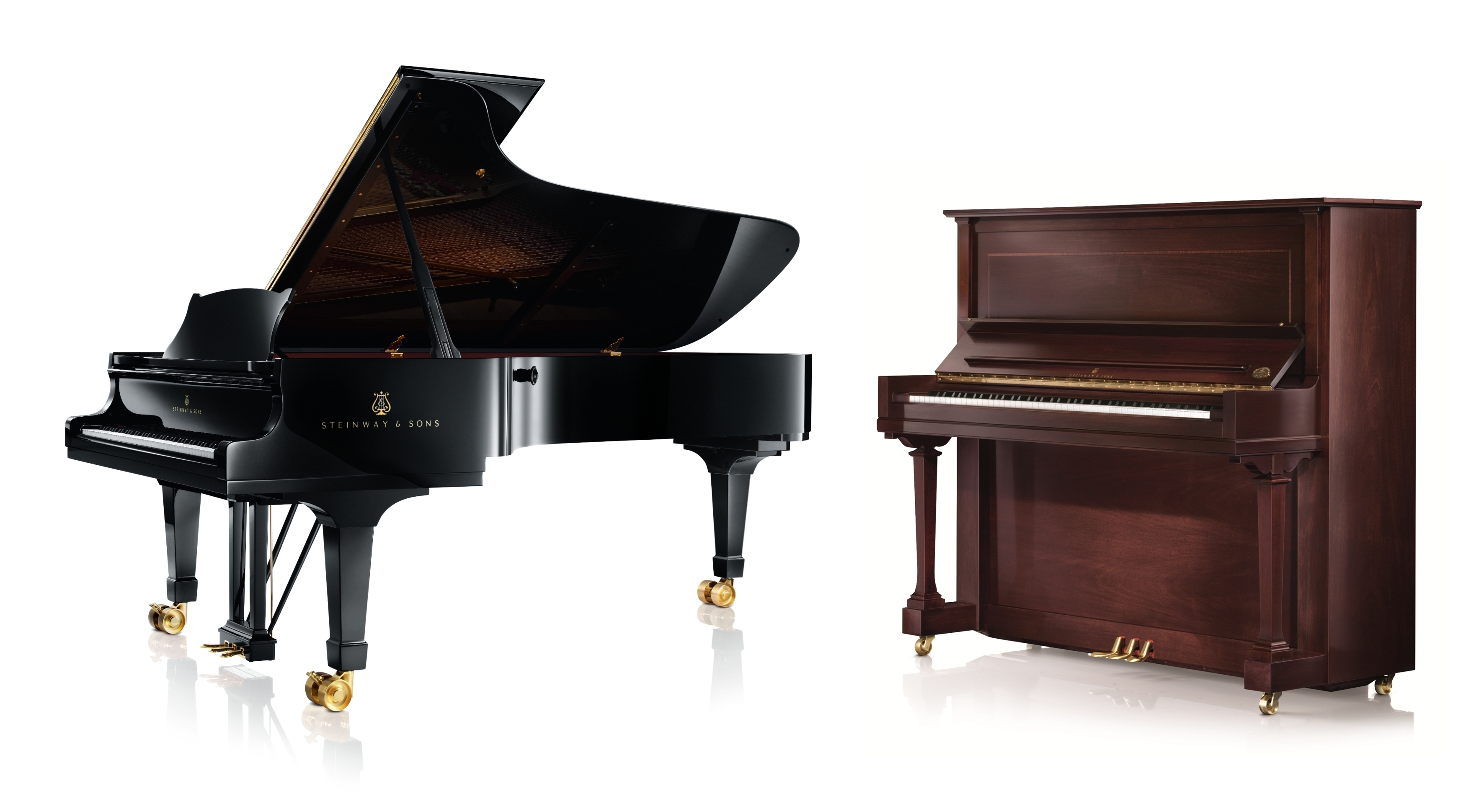 A grand piano (left) and an upright piano (right).The grand piano (left) is a Steinway & Sons concert grand piano in high polish polyester finish, model D-274 (length: 274 cm / 107.9 in, width: 156 cm / 61.4 in, weight: approx. 480 kg / 1056 lb), manufactured at Steinway's factory in Hamburg, Germany.The upright piano (right) is a Steinway & Sons upright piano in mahogany finish, model K-52 (height: 132 cm / 52 in, width: 154 cm / 60.6 in, depth: 67 cm / 26.4 in, weight: 273 kg / 600 lb), manufactured at Steinway's factory in New York City.